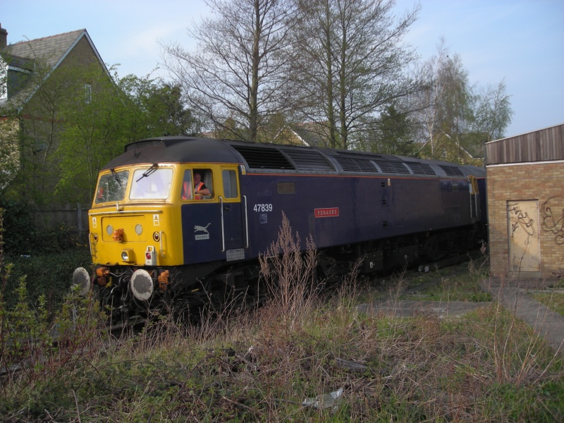 Locomotive 47839 Pegasus at Canterbury